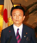 Following their meeting, Secretary Rice and Japanese Foreign Minister Taro Aso held a joint press conference in Tokyo at the Iikura Guest House. Secretary Rice is traveling to Tokyo, Japan, Seoul,South Korea, Beijing, China and Moscow, Russia from October 17 to 22.